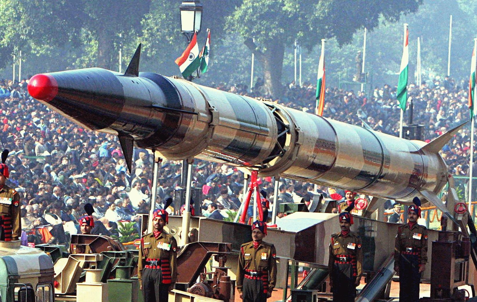 An Indian Agni-II intermediate range ballistic missile on a road-mobile launcher, displayed at the Republic Day Parade on New Delhi's Rajpath, January 26, 2004. Modified by user:nikkul ( Photo: Antônio Milena (ABr). from Original file name: 14872.jpeg Original caption: Nova Délhi (Índia) - Governo indiano exibe míssel nuclear, durante o desfile comemorativo do Dia da República, na Rajpath.(foto:Antônio Milena)